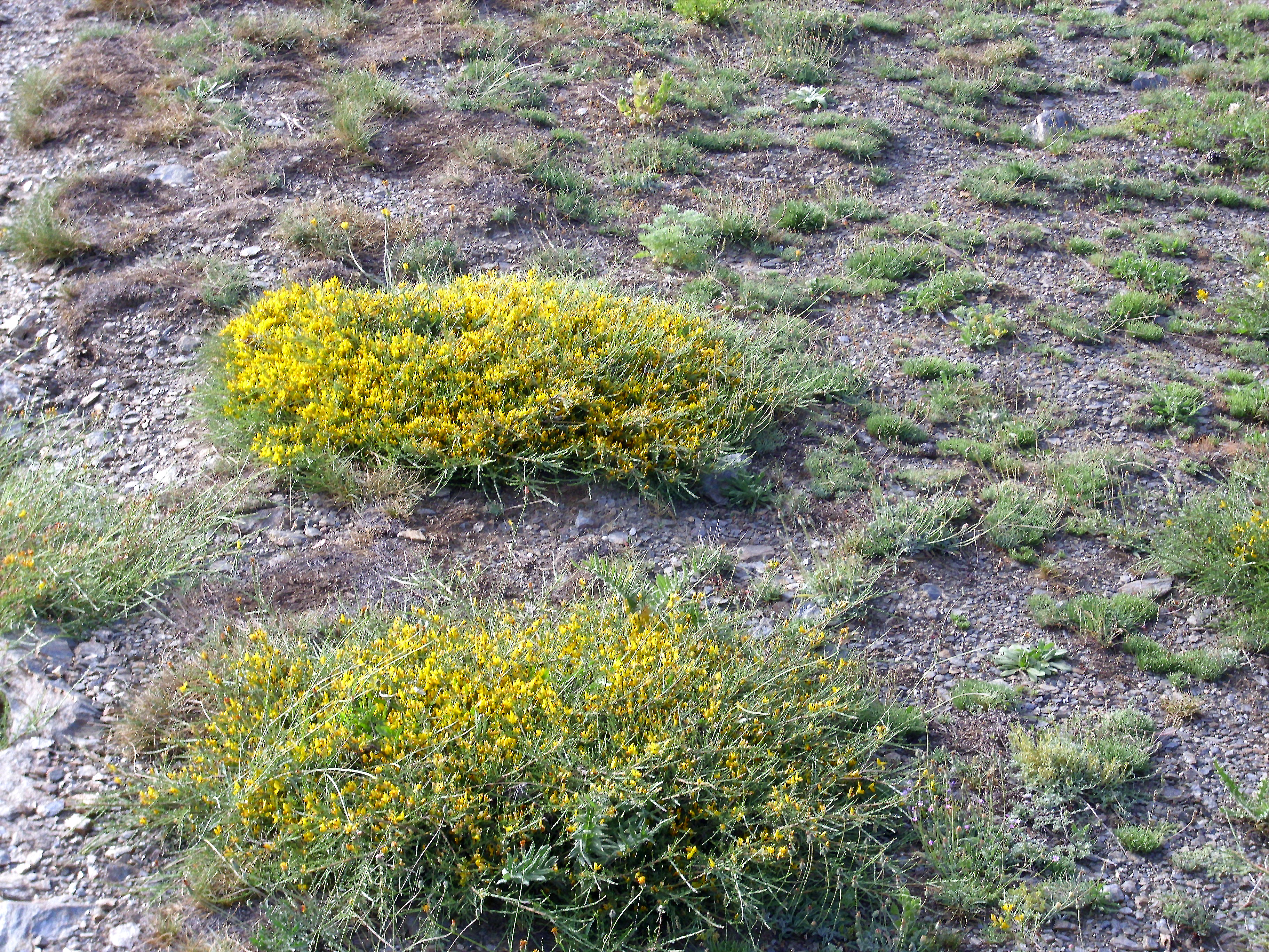 Echinospartum boissieri, habitat, Sierra Nevada, Spain